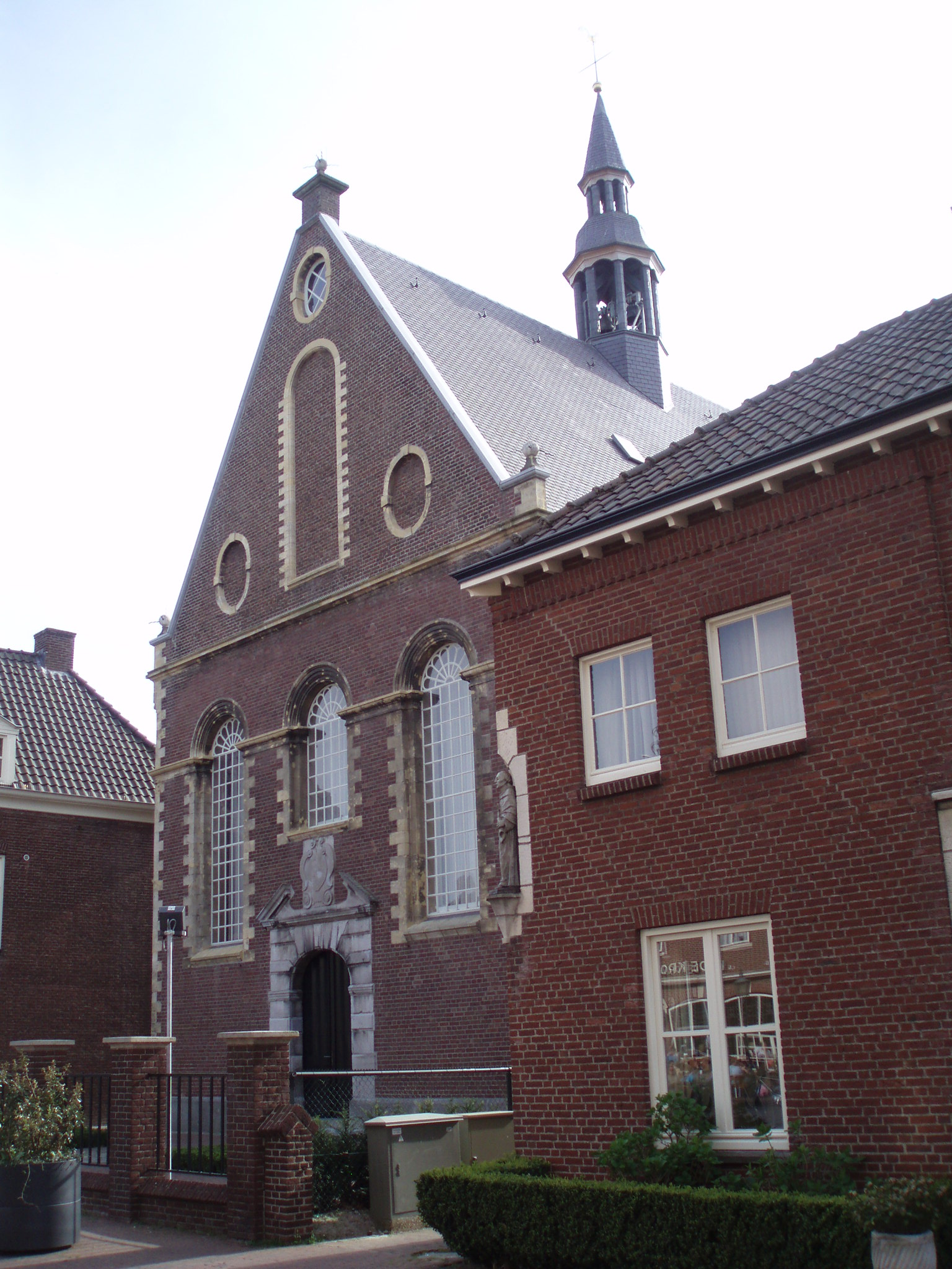 Protestant church, Gennep, Netherlands